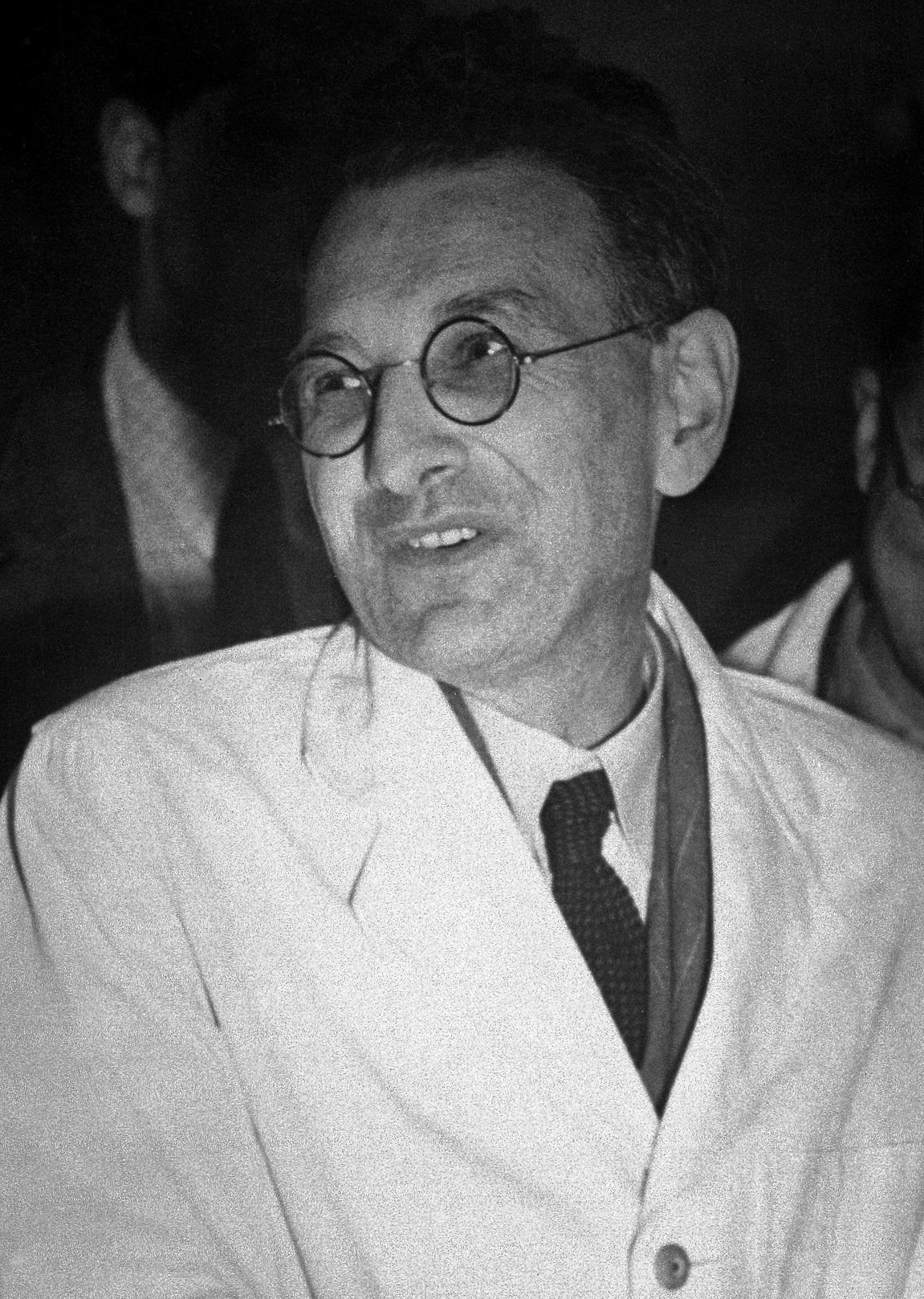 Walter Pagel, demonstrating dissection, Middlesex Hospital